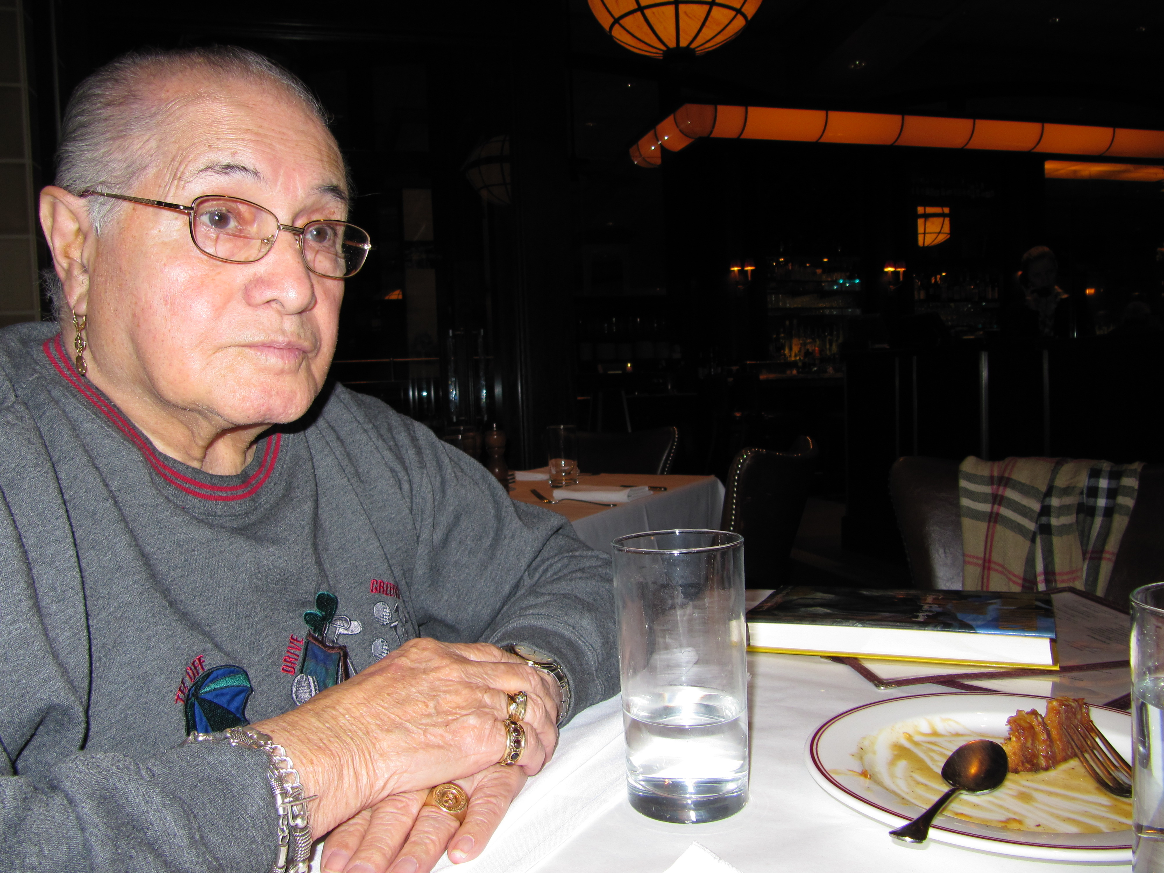 Photo of José Sarria dining at Eastern Standard restaurant in the Hotel Commonwealth, Kenmore Square, Boston